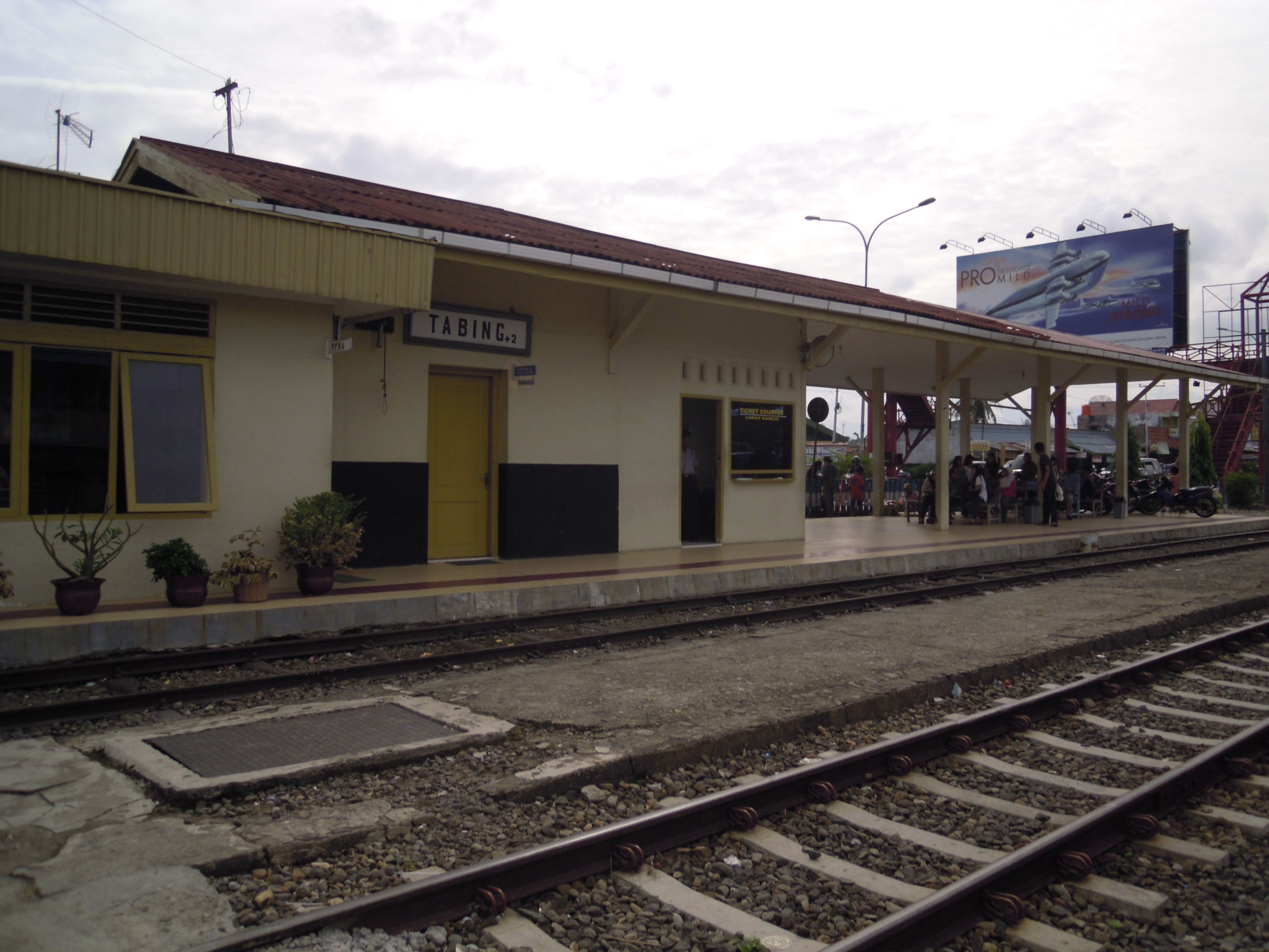 Railway station at Tabing, Padang, West Sumatra, Indonesia